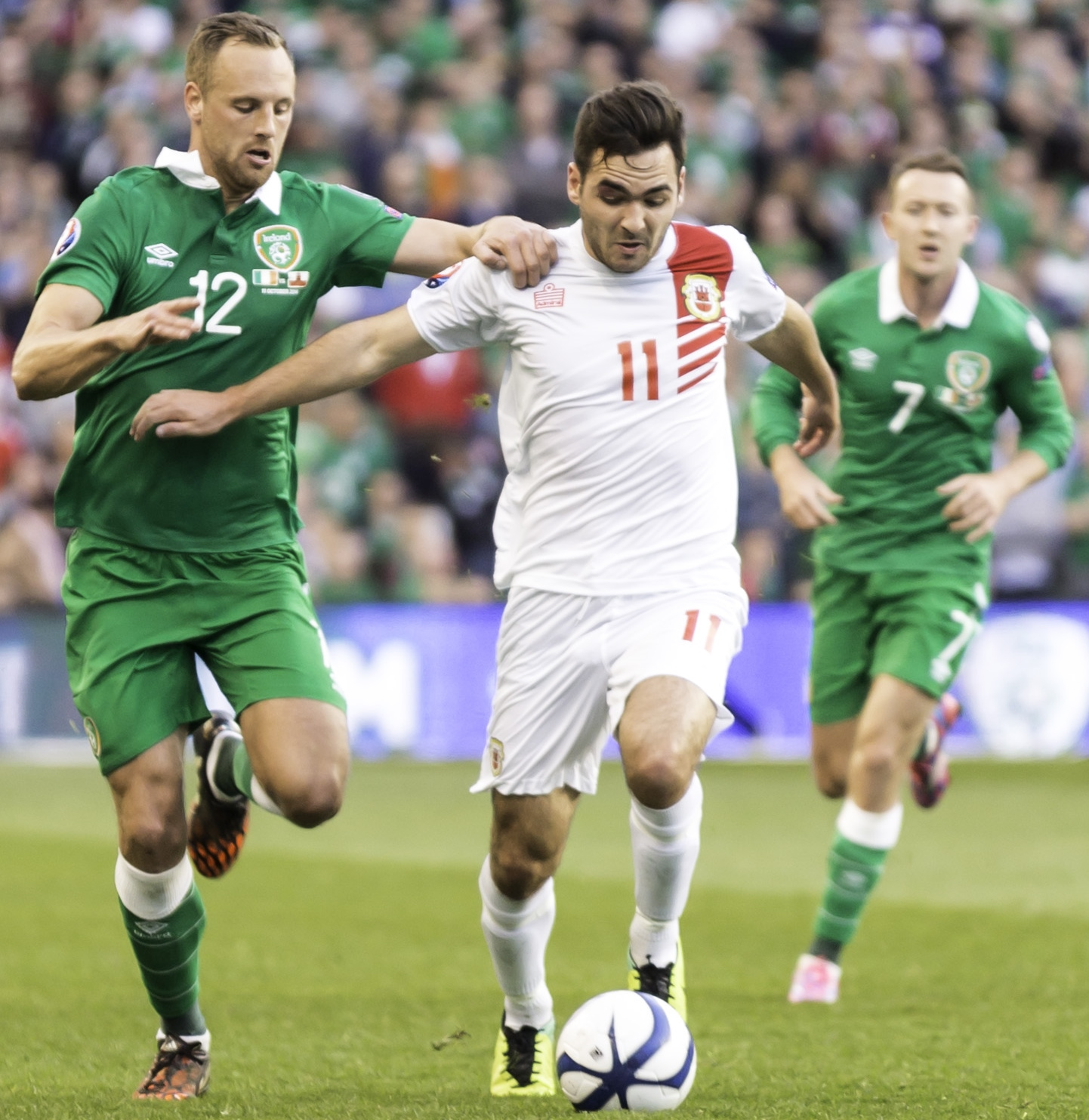 Jake Gosling with Gibraltar against the Republic of Ireland during Euro 2016 qualifying